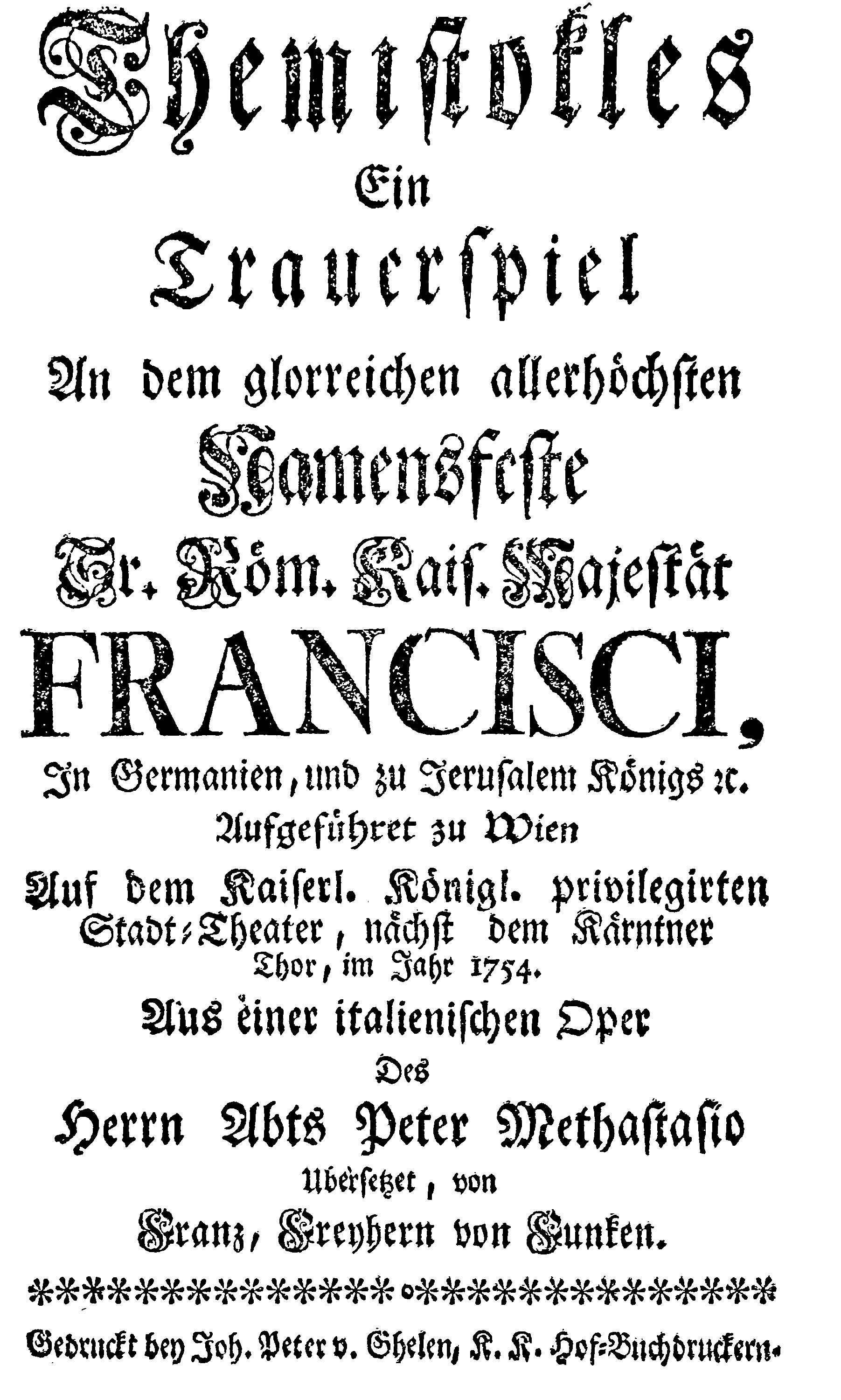 Franz von Funken - Themistokles - titlepage of the libretto - Vienna 1754